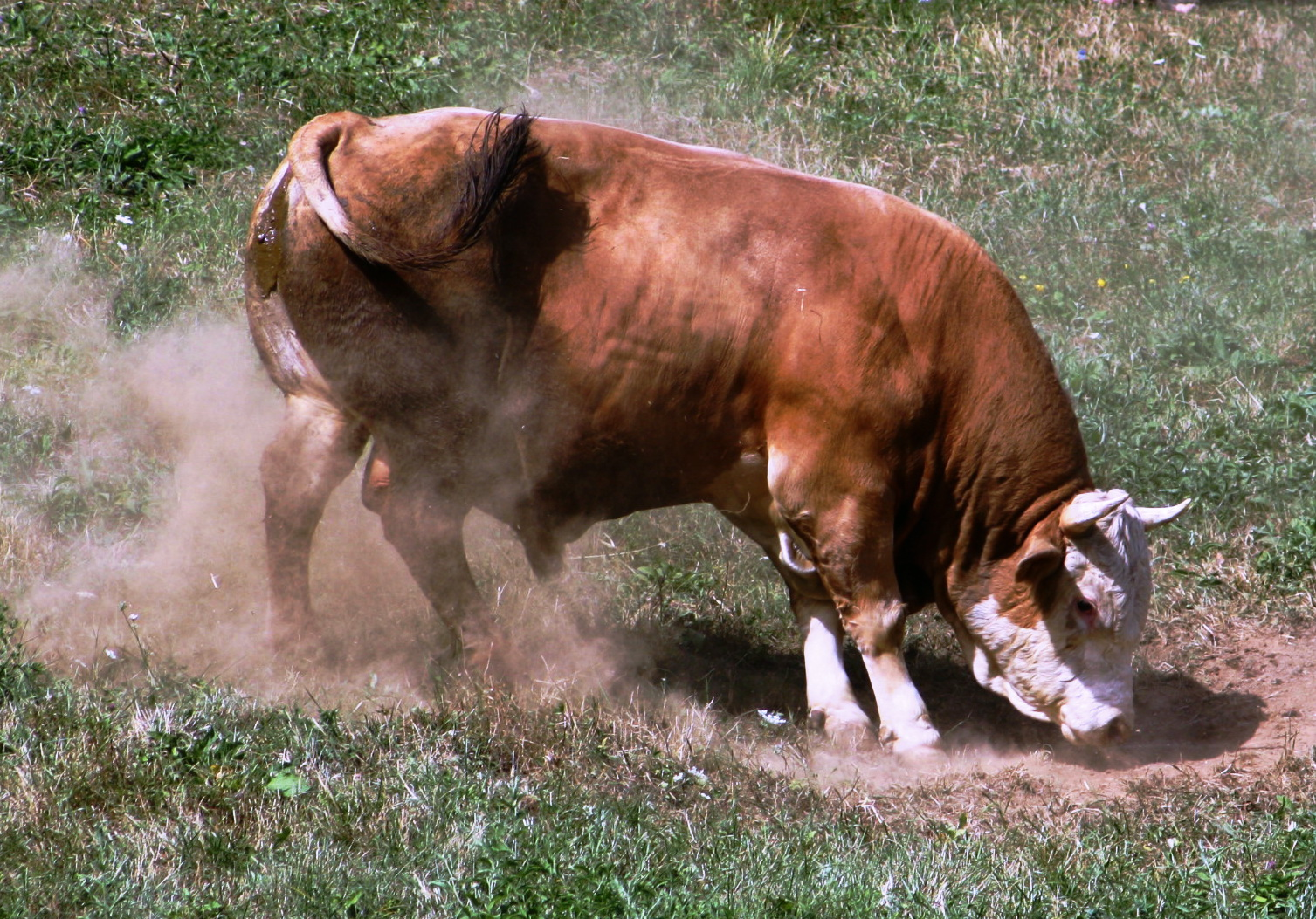 Bull at a bullfight (Korida) to Sanski Most, Bosnia and Herzegovina